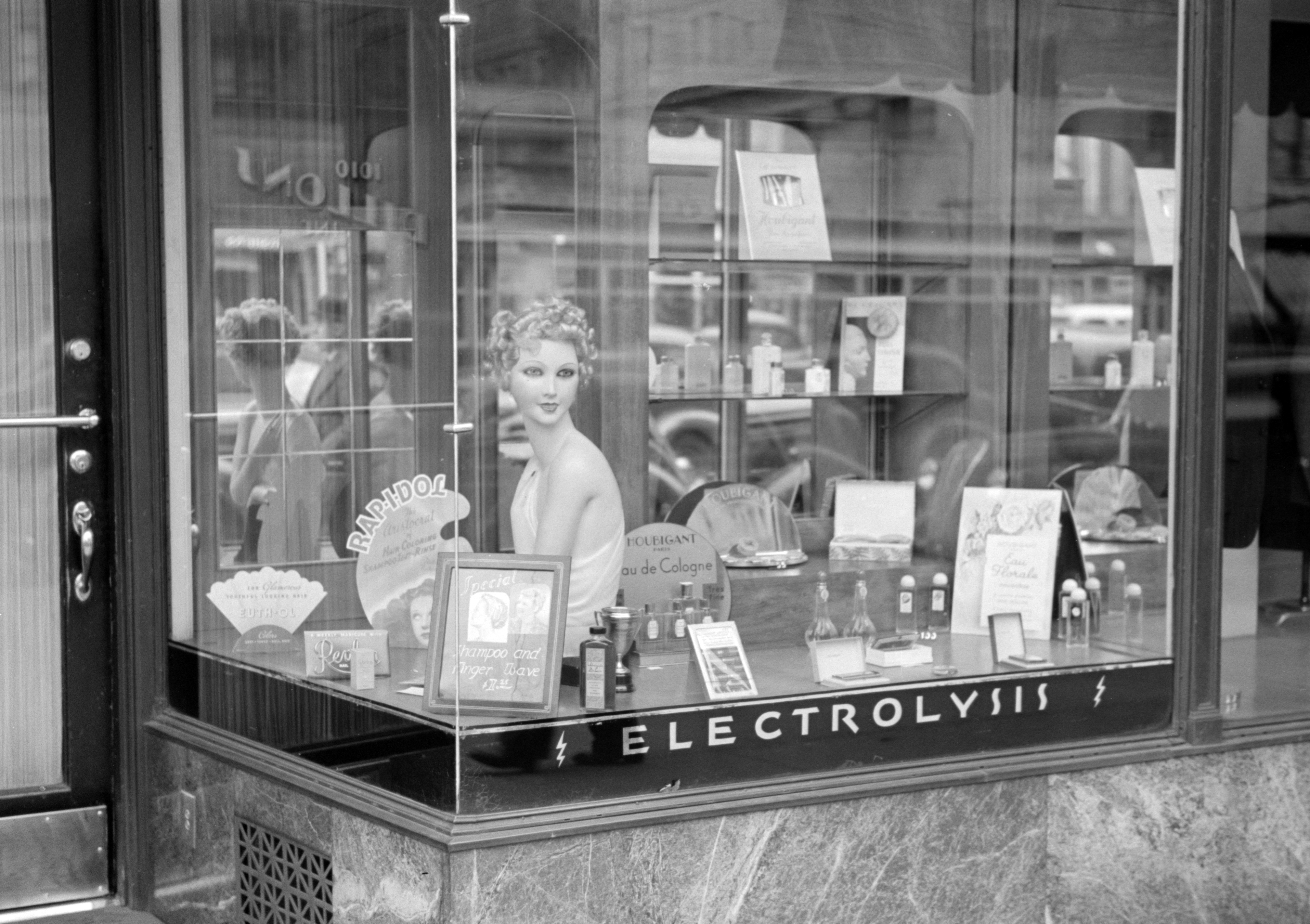 A beauty store window advertising electrolysis hair removal. In Washington D.C. Part of the US Government's Farm Security Administration photo series in the 1930s. Photo is in public domain